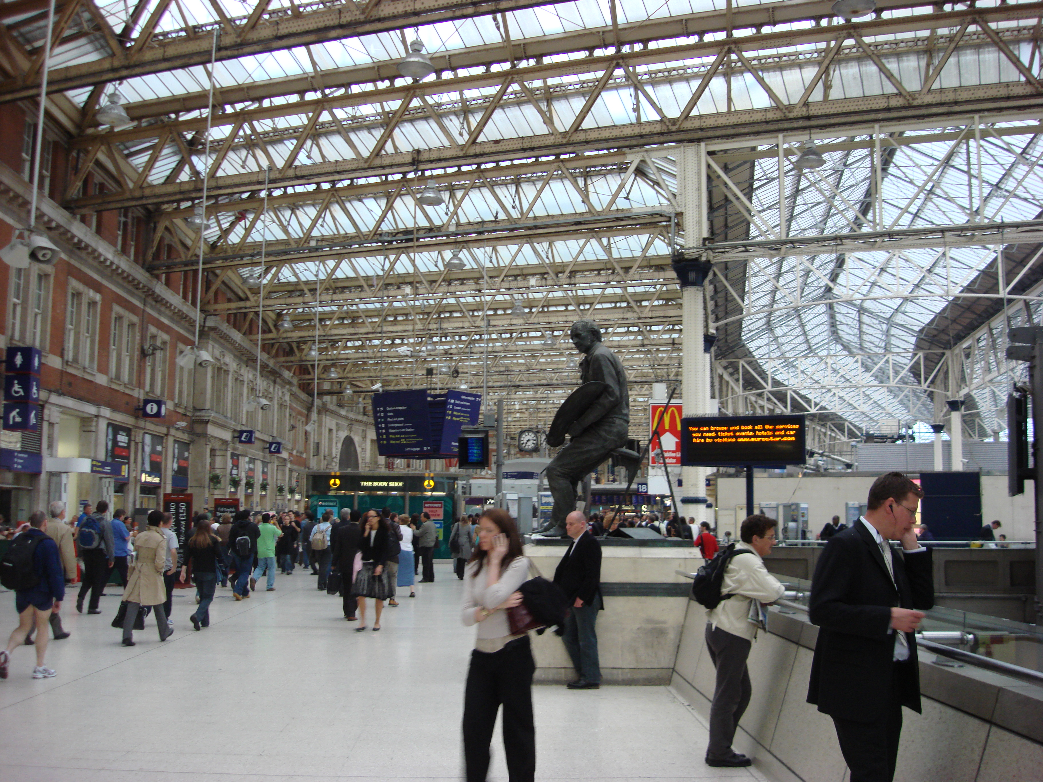 The concourse at Waterloo Station